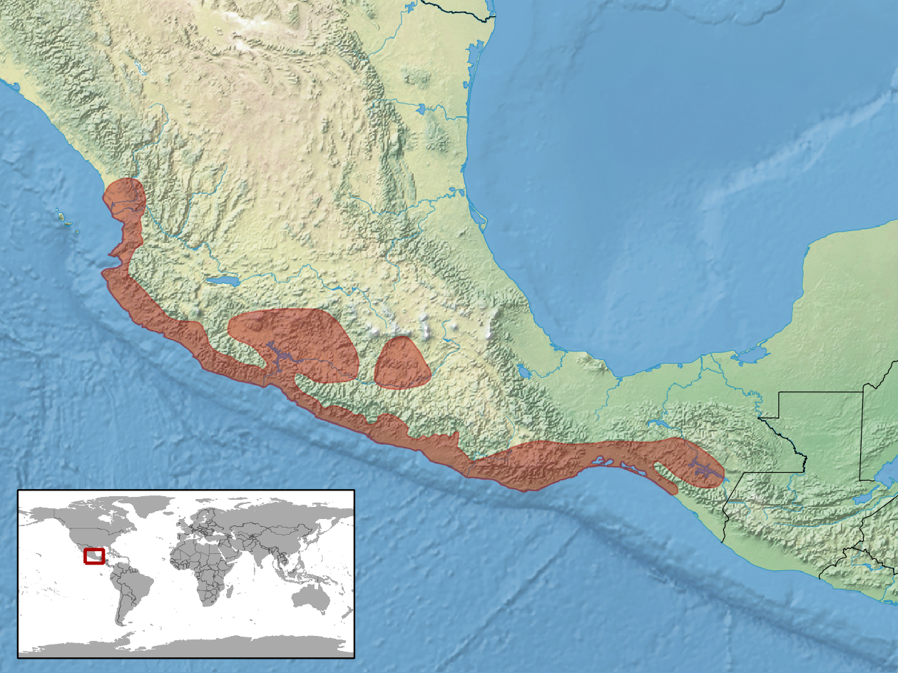 geographic distribution of Conophis vittatus (Native: Mexico)